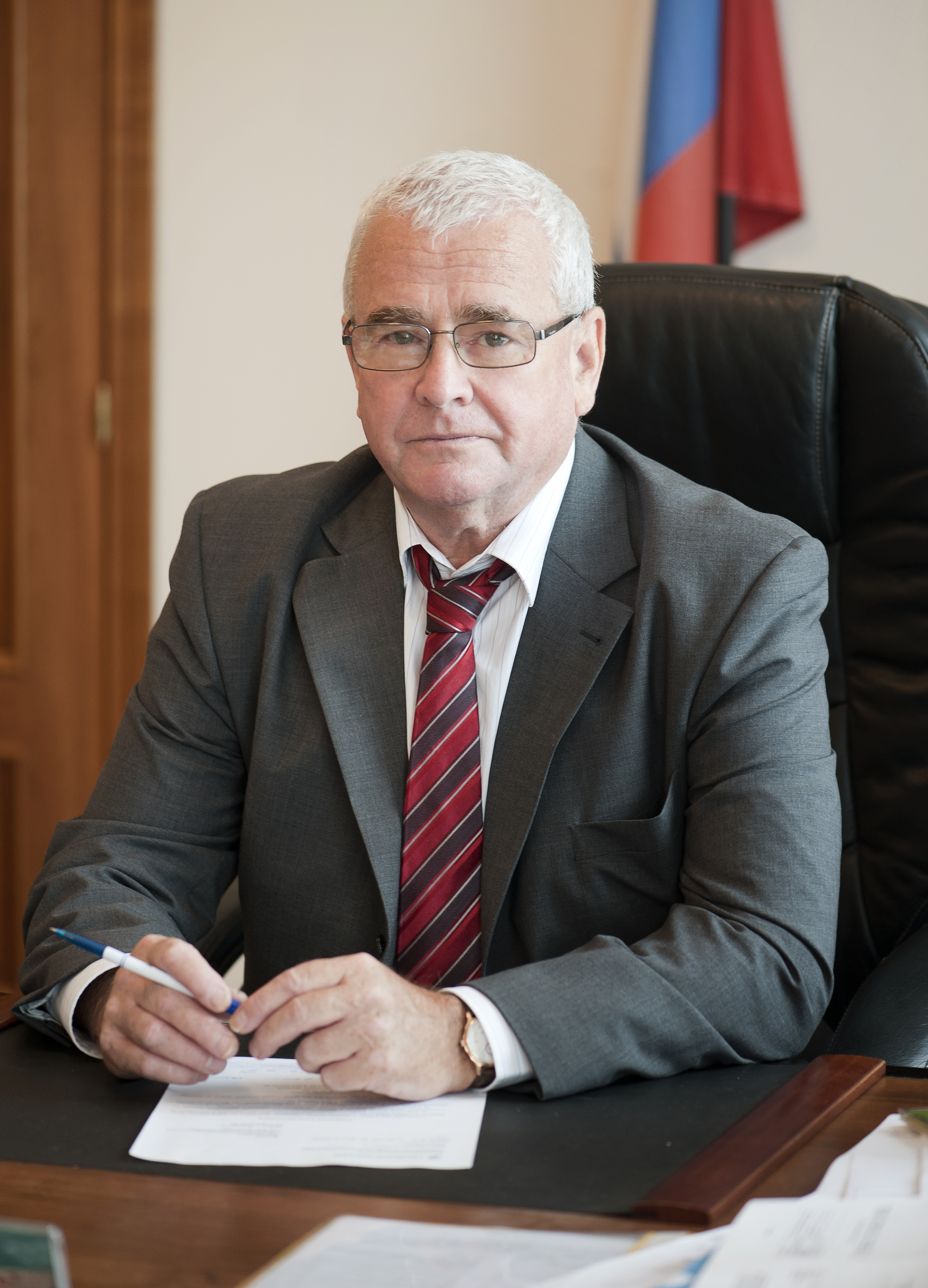 Борис Евгеньевич Дынькин